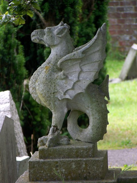 One of a pair of statues of a wyvern in St Peter's parish churchyard, Fugglestone St Peter, Wiltshire